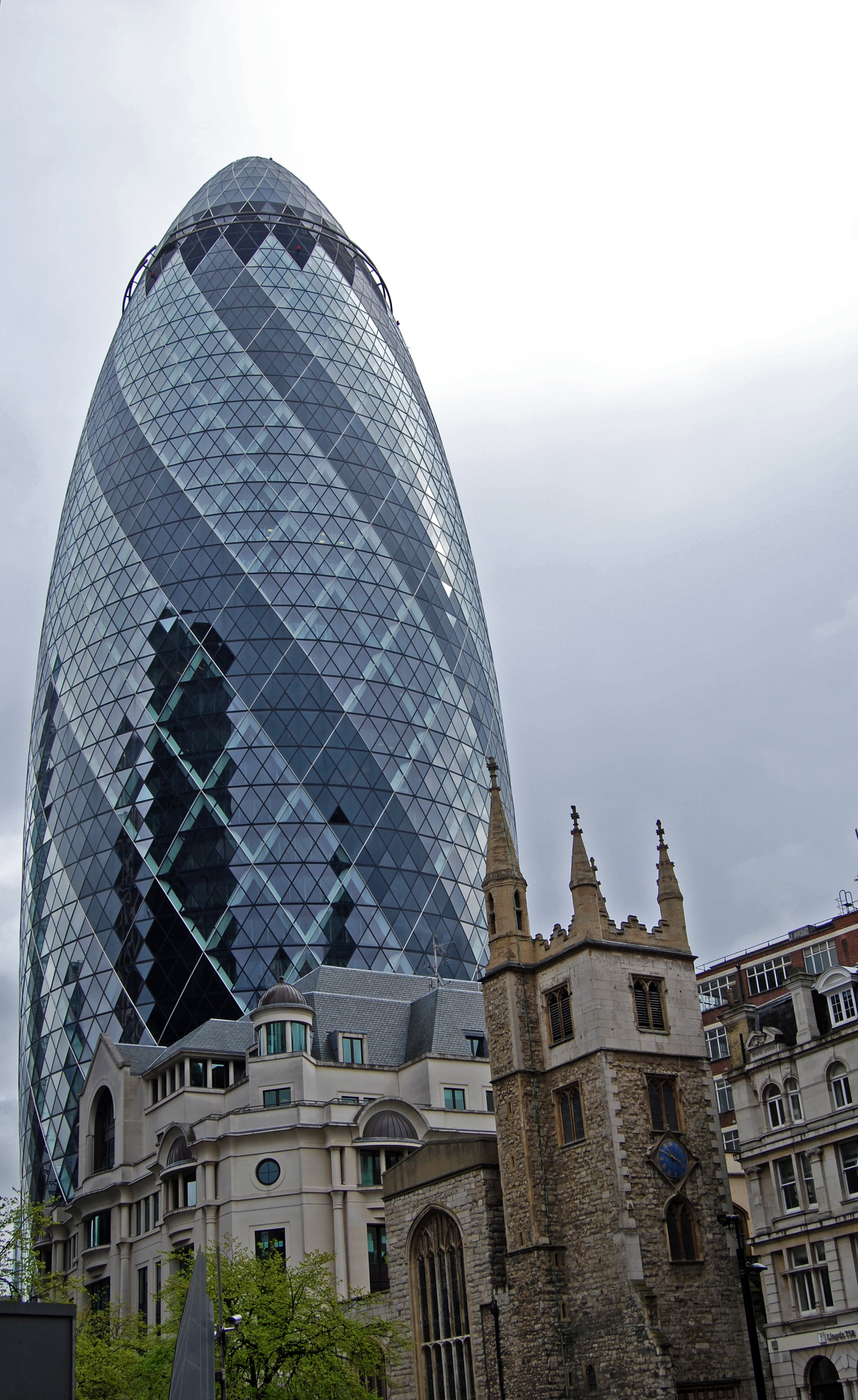 30 St Mary Axe